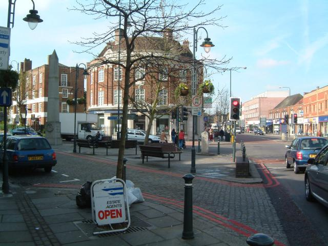 East Sheen. Junction of A205 (Upper Richmond Road) and B351 (Sheen Lane). Notice the War Memorial (on the left) and the old milestone (in the centre, next to the traffic lights) on a piece of land called the Triangle.